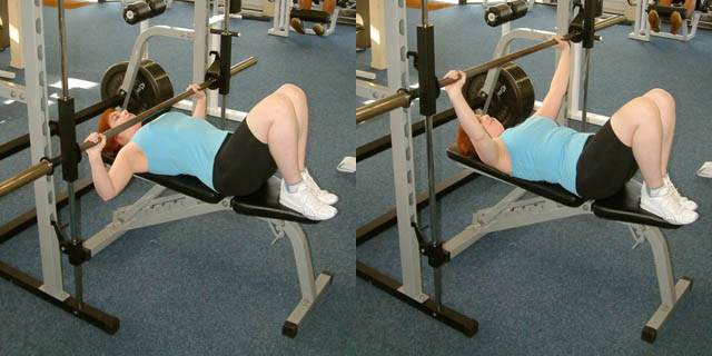 Thanks go to the model, Emily.